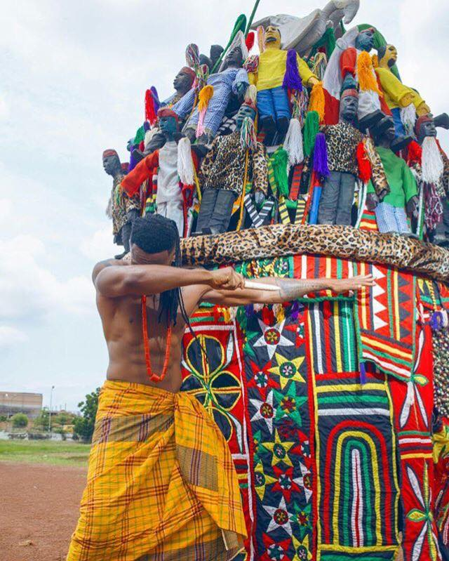 IJELE, one of the greatest masquerade in the igbo land. This is an image of "African people at work" from Nigeria